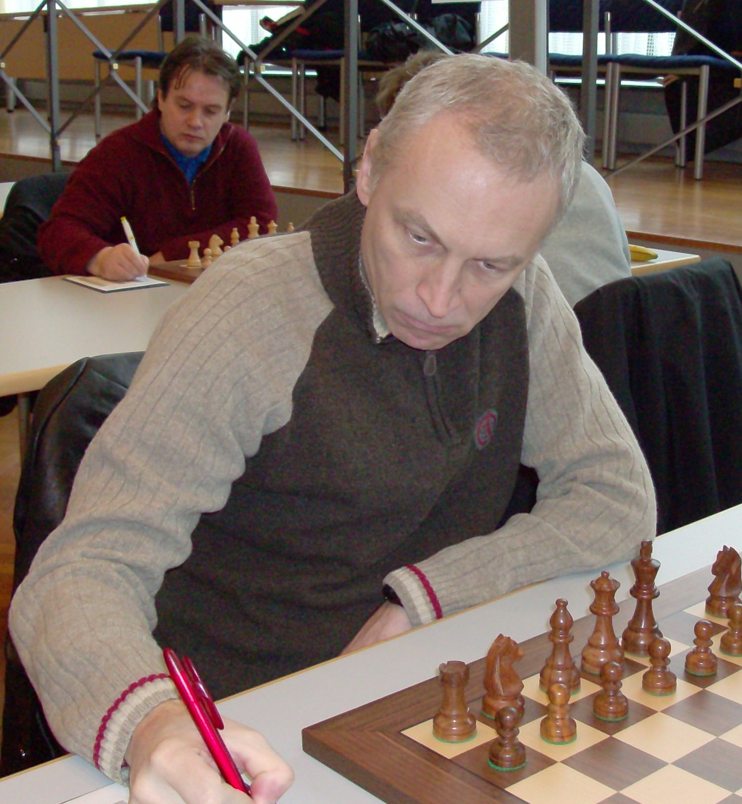 Mladen Muse, chess grandmaster from Croatia